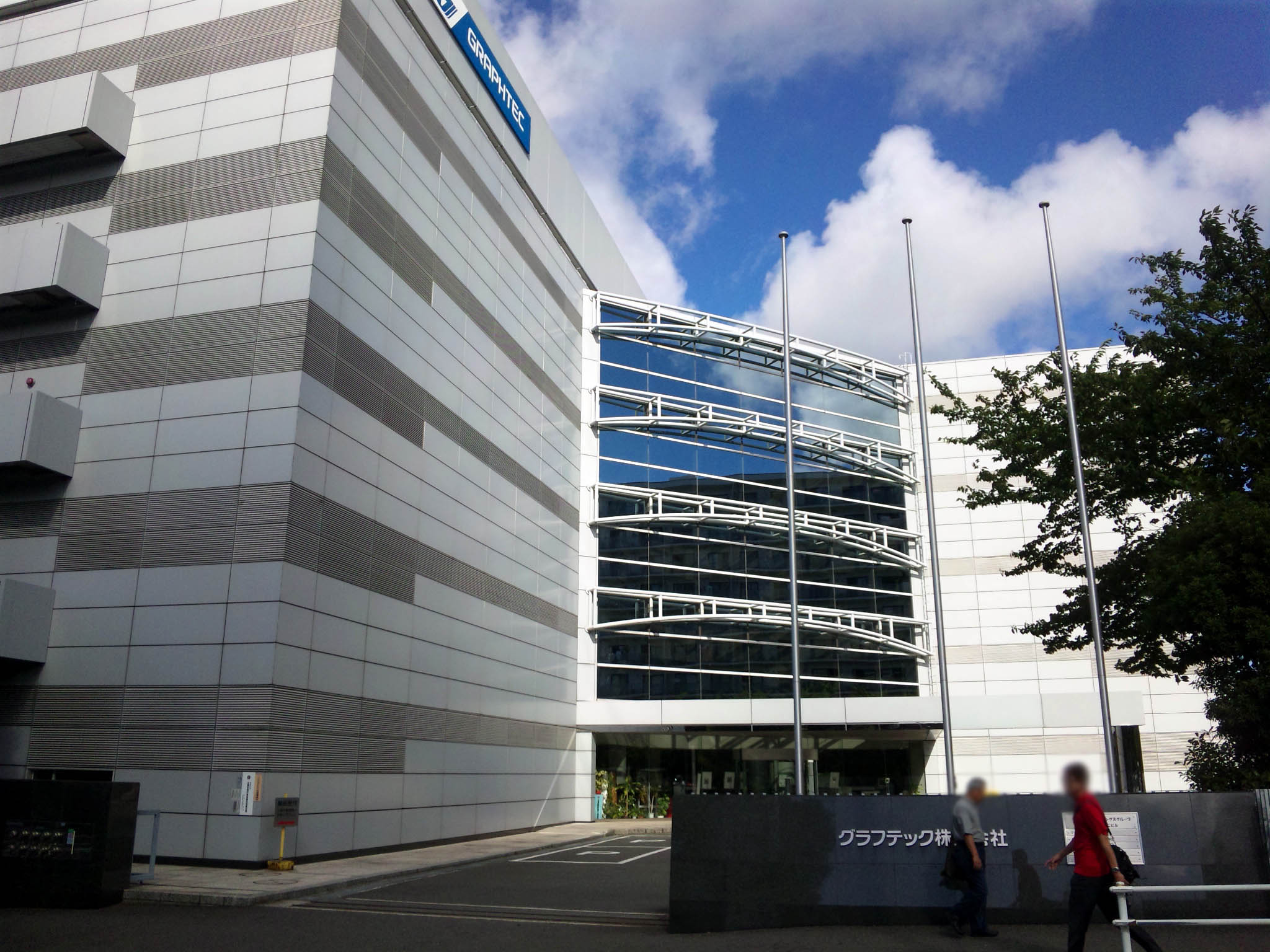 GRAFTEC YOKOHAMA